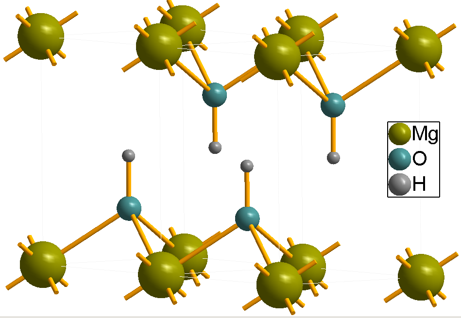 Crystal structure of brucite (Mg(OH)2). [1] Toshiaki Enoki and Ikuji Tsujikawa (1975). "Magnetic Behaviours of a Random Magnet, NipMg(1-p)(OH2)". J. Phys. Soc. Jpn. 39: 317-323.